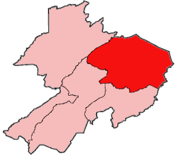 Map of Gbarpolu County, Liberia showing Belleh District; created with the GIMP. Made by User:Acntx.